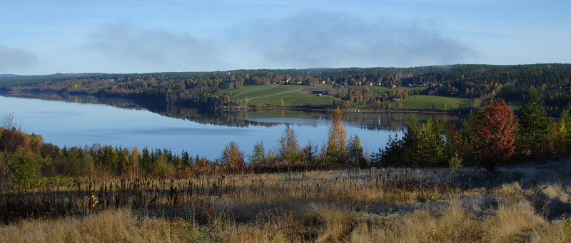 Örträsk by lake Örträsksjön in southern Lapland, Sweden.